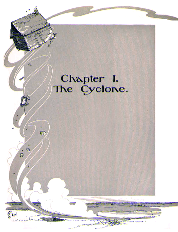 An illustration by W. W. Denslow from The Wonderful Wizard of Oz, also known as The Wizard of Oz, a 1900 children's novel by L. Frank Baum.